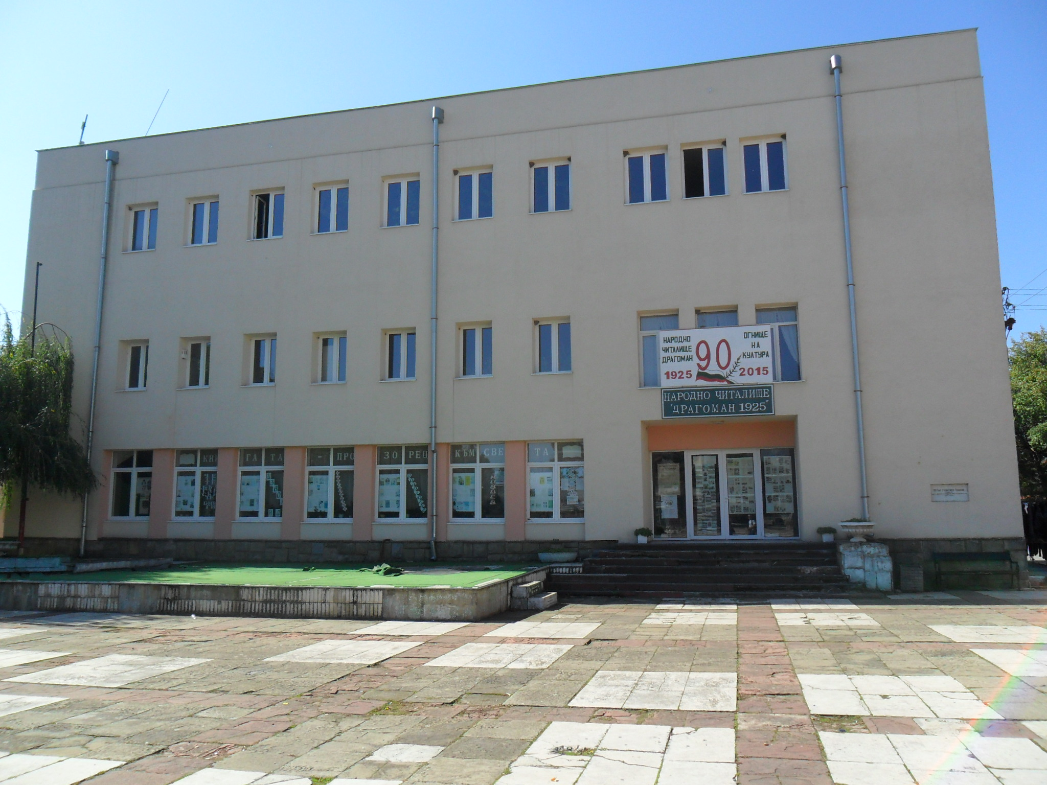 Dragoman`s chitalishte "Dragoman 1925" Object location42° 55′ 17.35″ N, 22° 55′ 46.72″ E